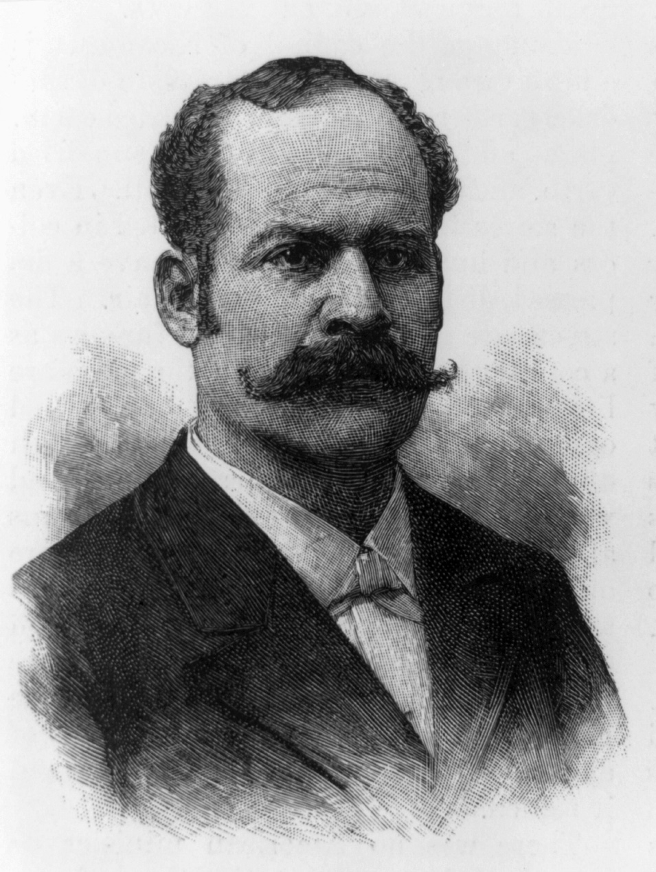 José Santos Zelaya, President of Nicaragua. Illus. in: Harper's Weekly, 1895.